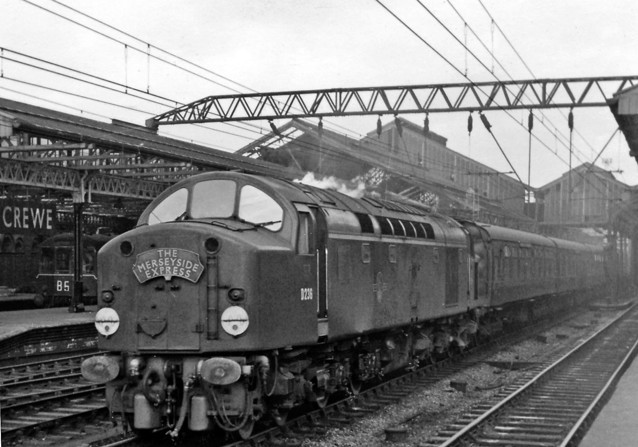 Up 'Merseyside Express' passing through Crewe with a Type 4 Diesel. View northward, towards Liverpool, also Carlisle on the WCML, Manchester etc., in 1960 during the early stages of Dieselisation of the principal trains on the WCML and soon after Crewe - Manchester had been electrified. Seen from Platfrom 5, running on the Up Through is No. D236 on the 10.05 Liverpool Lime Street - Euston 'Merseyside Express', an early candidate to be elevated to haulage, but not yet accelerated, by the new English-Electric 2,000 hp Type 4 1-Co-Co-1 Diesels (later Class 40).